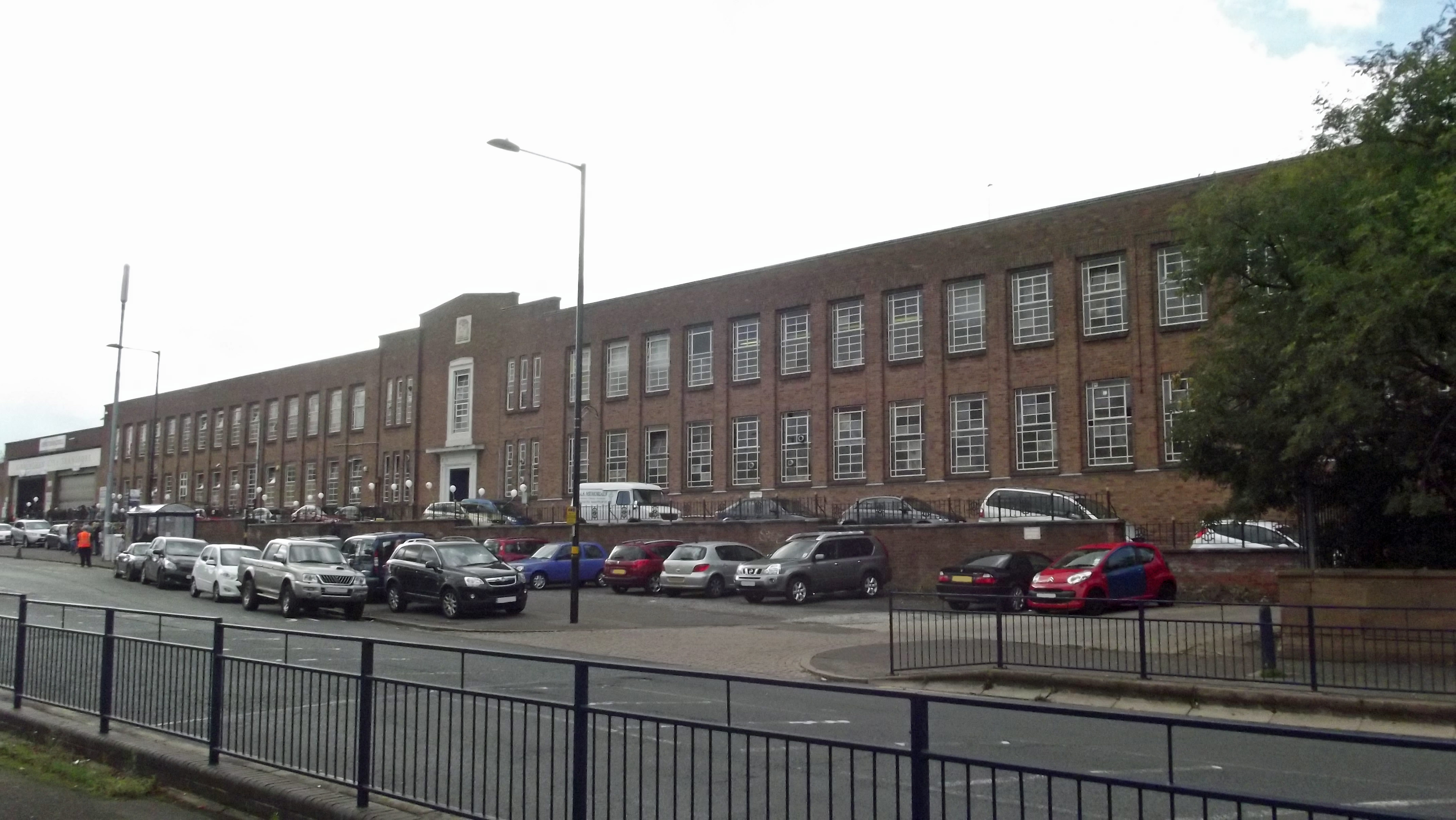 Open Day at Yardley Wood Bus Garage on Saturday 5th October 2013. Exterior of the bus garage in Yardley Wood on Yardley Wood Road. Panoramic of the garage exterior.